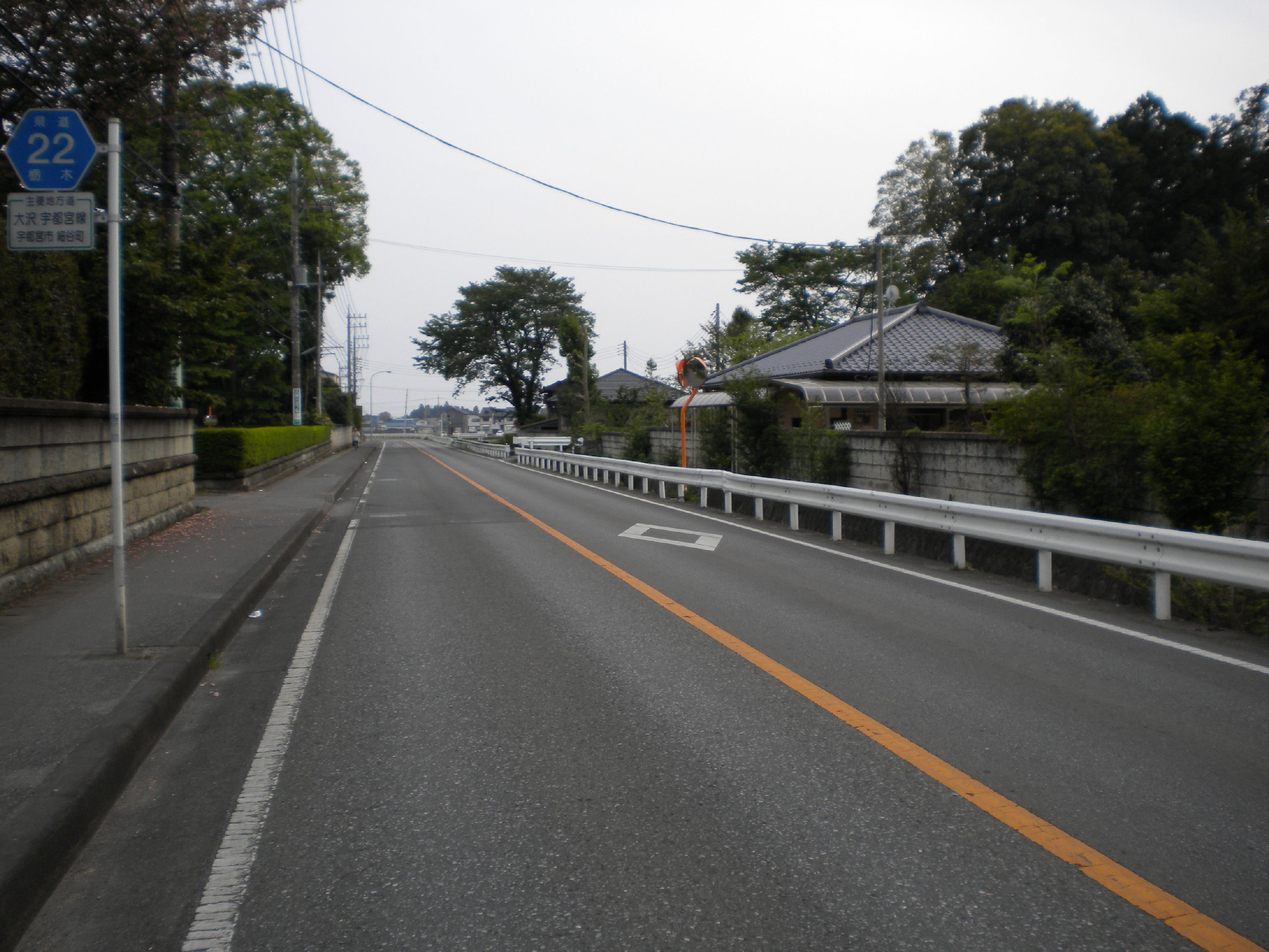 The Tochigi Prefectural Road Route 22 in Hosoyacho, Utsunomiya City